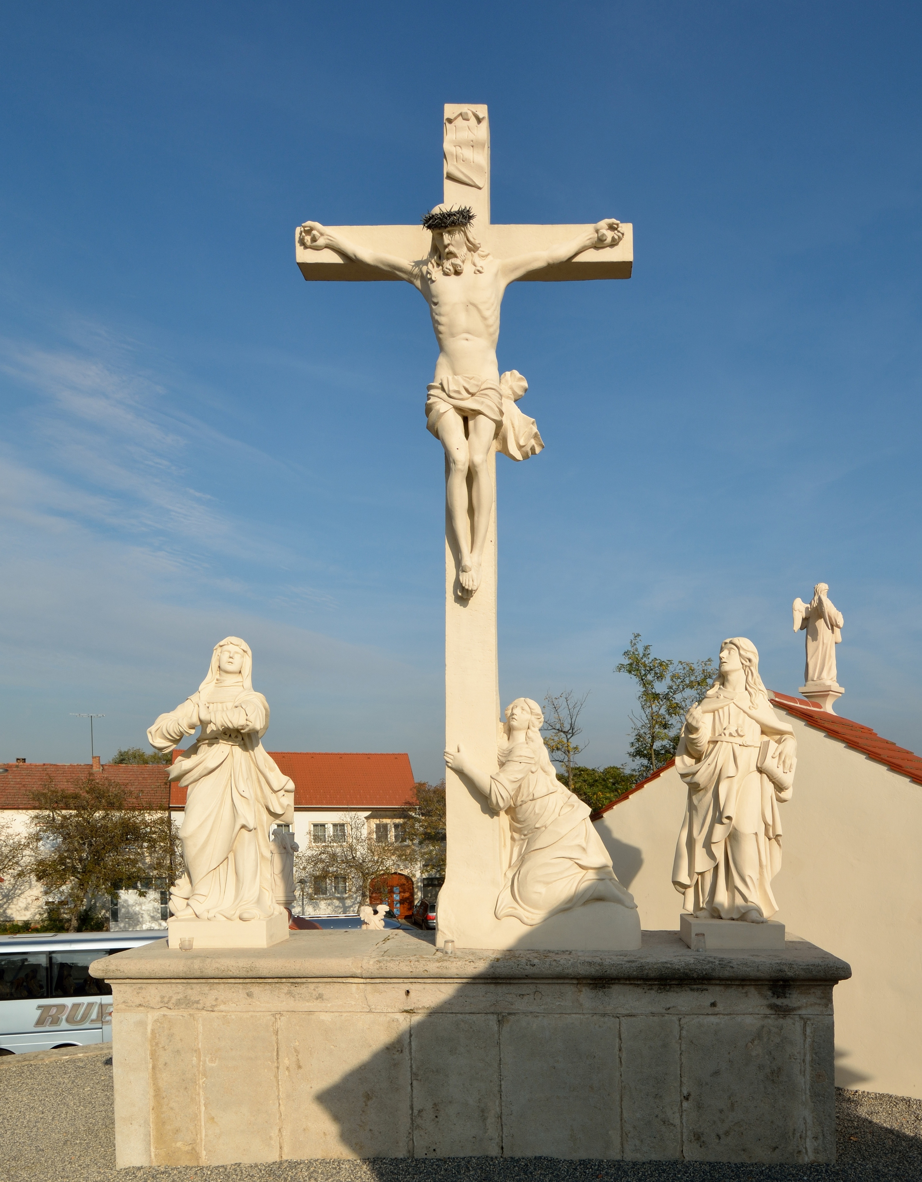 Crucifixion scene (1759), Calvary Frauenkirchen (1685), Burgenland, Austria